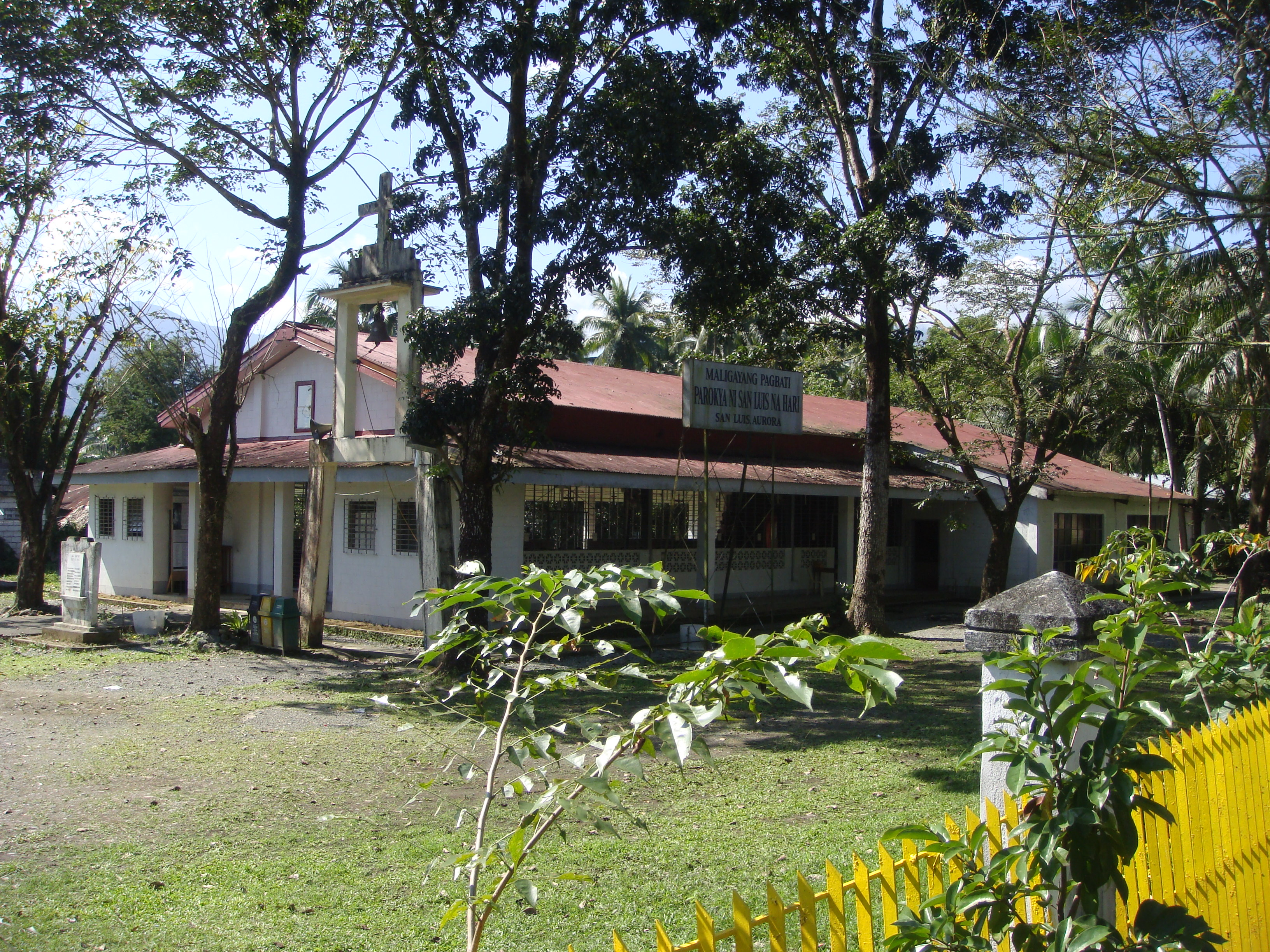 Parokya ni San Luis na Hari (San Luis' Parish Church), San Luis, Aurora